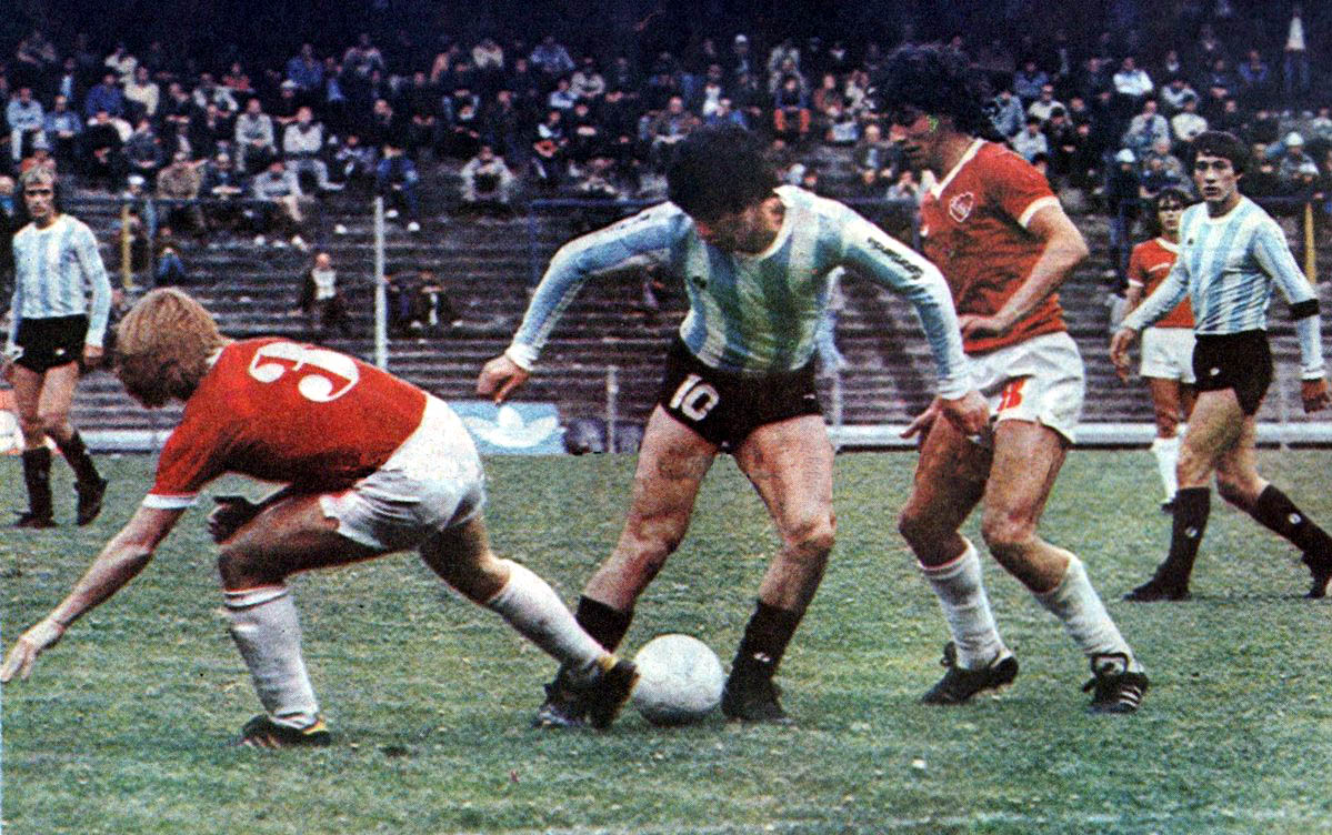 Independiente v. Racing Club, played in La Bombonera. Juan R. Carrasco (10) dribbling between Mario Killer (3) and Ricardo Giusti (8). Independiente won 2-1.